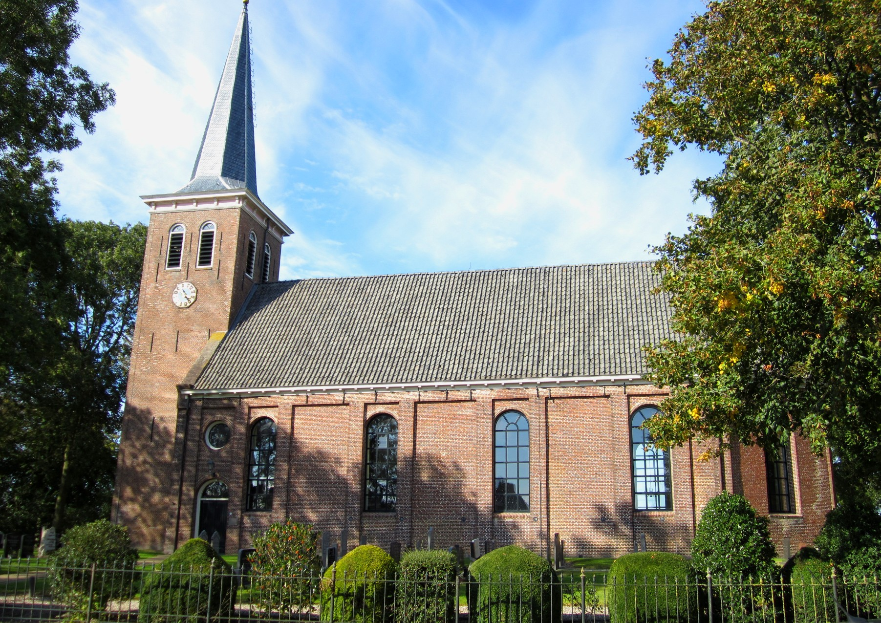 Marijetsjerke (St. Mary's Church), Winsum, Friesland, The Netherlands. Photograph taken on September 20th, 2017.